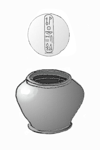 Small stone jar and jar lid with the cartouche of pharaoh Nebsenre, 14th Dynasty, Second Intermediate Period. Part of the Georges Michailidis Collection. [ref: Peter Kaplony (1973) - Beschriftete Kleinfunde in der Sammlung Georges Michailidis Ergebnisse einer Bestandsaufnahme im Sommer 1968, nr. 41]